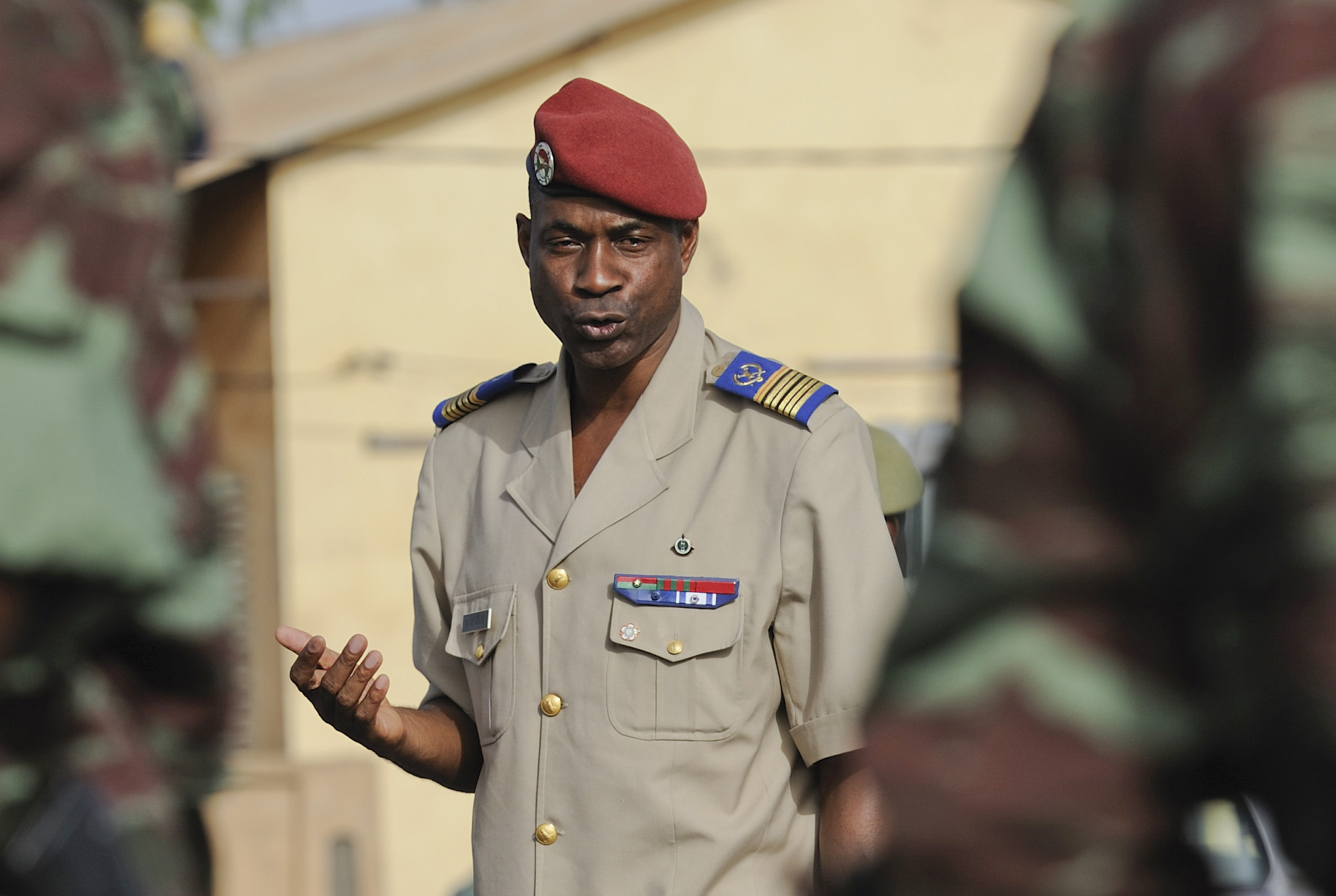 Burkinabe Col. Maj. Gilbert Diendéré, chief of staff of the President of Burkina Faso and President of the Burkina Faso Flintlock 2010 Committee, addresses Burkinabe soldiers prior to their deployment to Mali in support of exercise Flintlock 10 in Ouagadougou, Burkino Faso, May 1, 2010. About 40 soldiers boarded the C-130J to deploy for counterterrorism training with U.S., Malian and European partners. Flintlock 10 is a special operations forces exercise and is part of a U.S. Africa Command-sponsored annual program with partner nations in Northern and Western Africa. The exercise, which includes several European nations, is conducted by Special Operations Command Africa and is designed to build relationships and develop capacity among security forces throughout the Trans-Saharan region of Africa. (DoD photo by Master Sgt. Jeremiah Erickson, U.S. Air Force/Released)